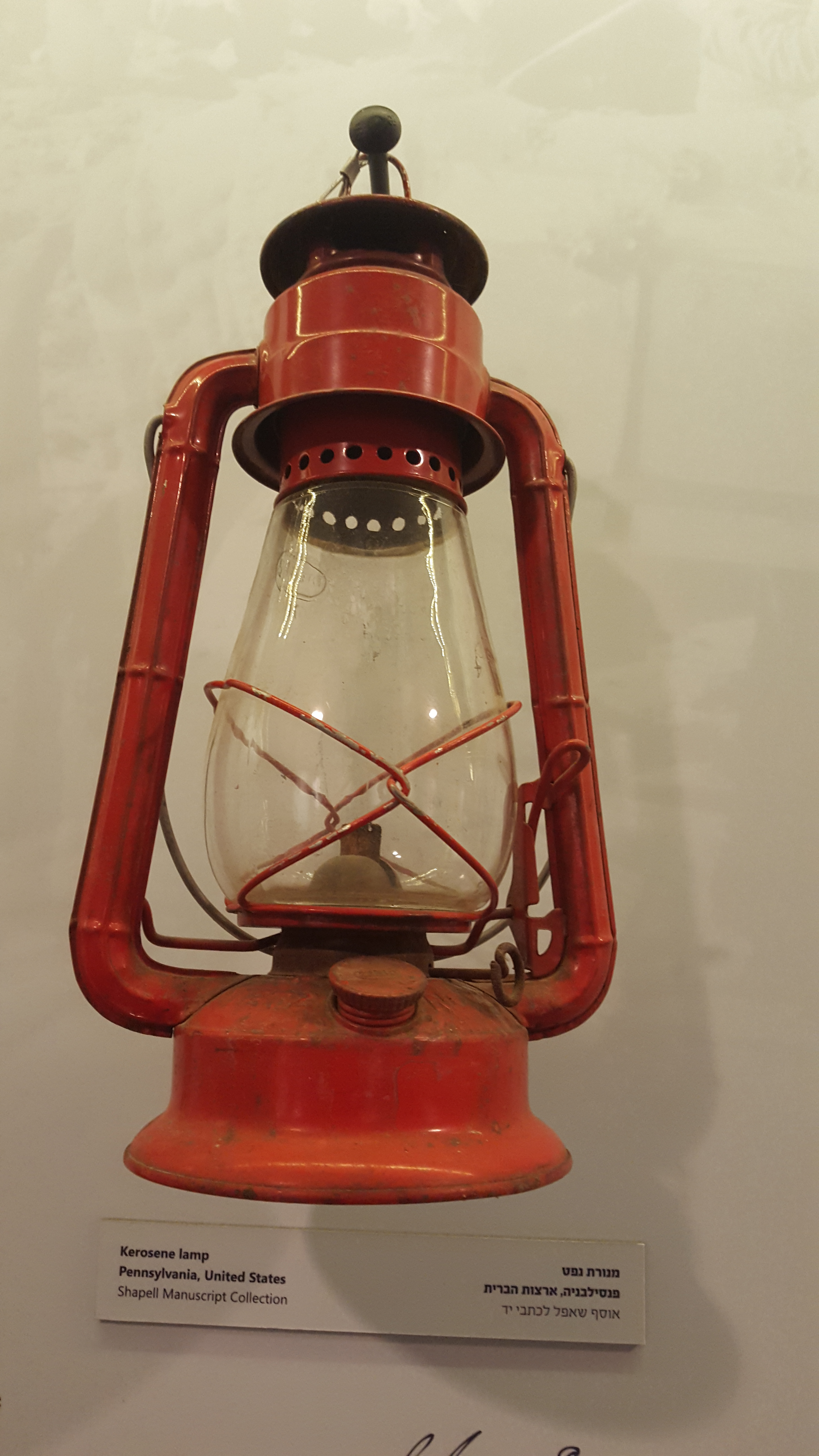 Kerosene lamp, Pennsylvania, United States. The 19th century - Shapell Manuscript Collection